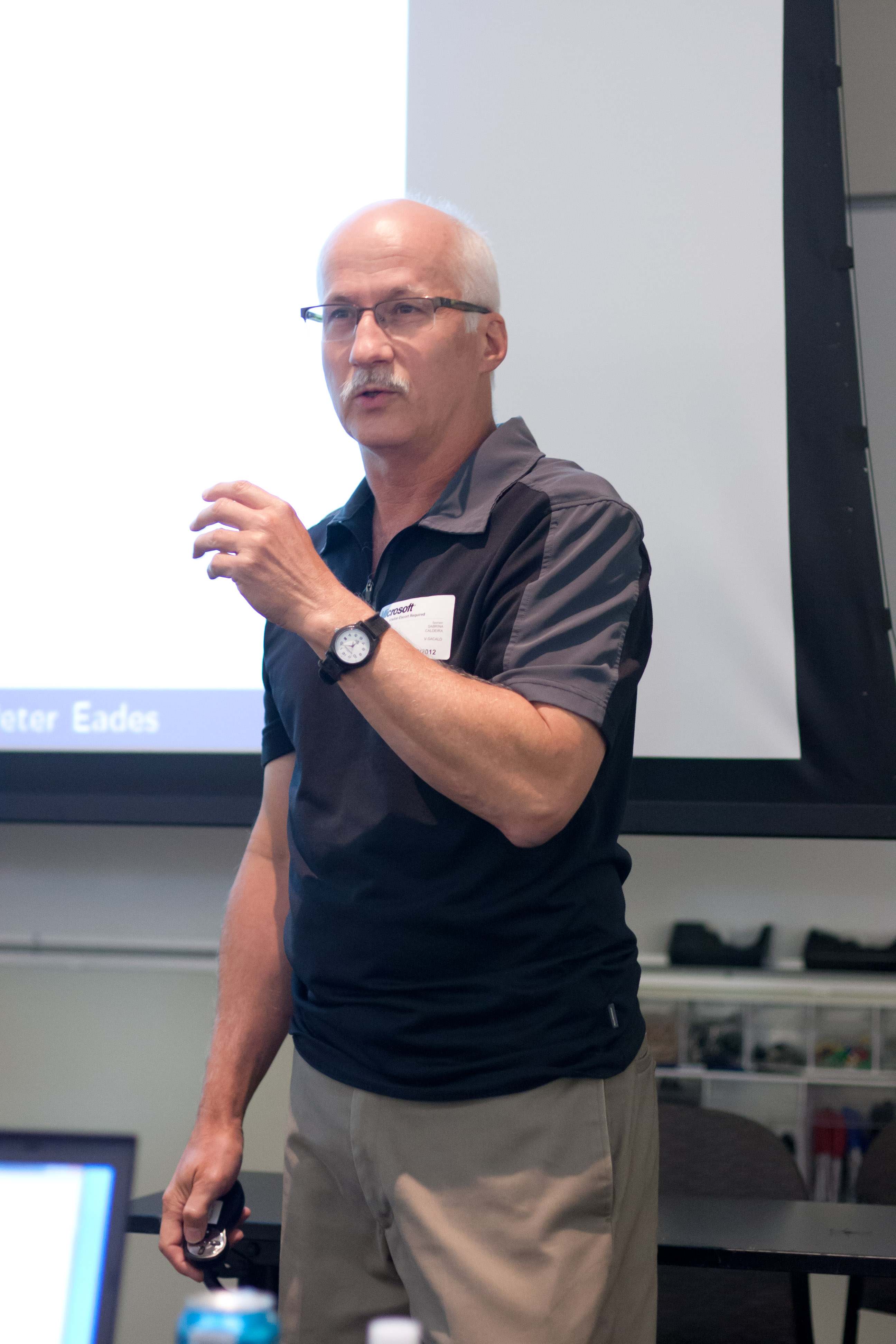 Frank Ruskey at the Workshop on Theory and Practice of Graph Drawing, Redmond, Washington, September 18, 2012